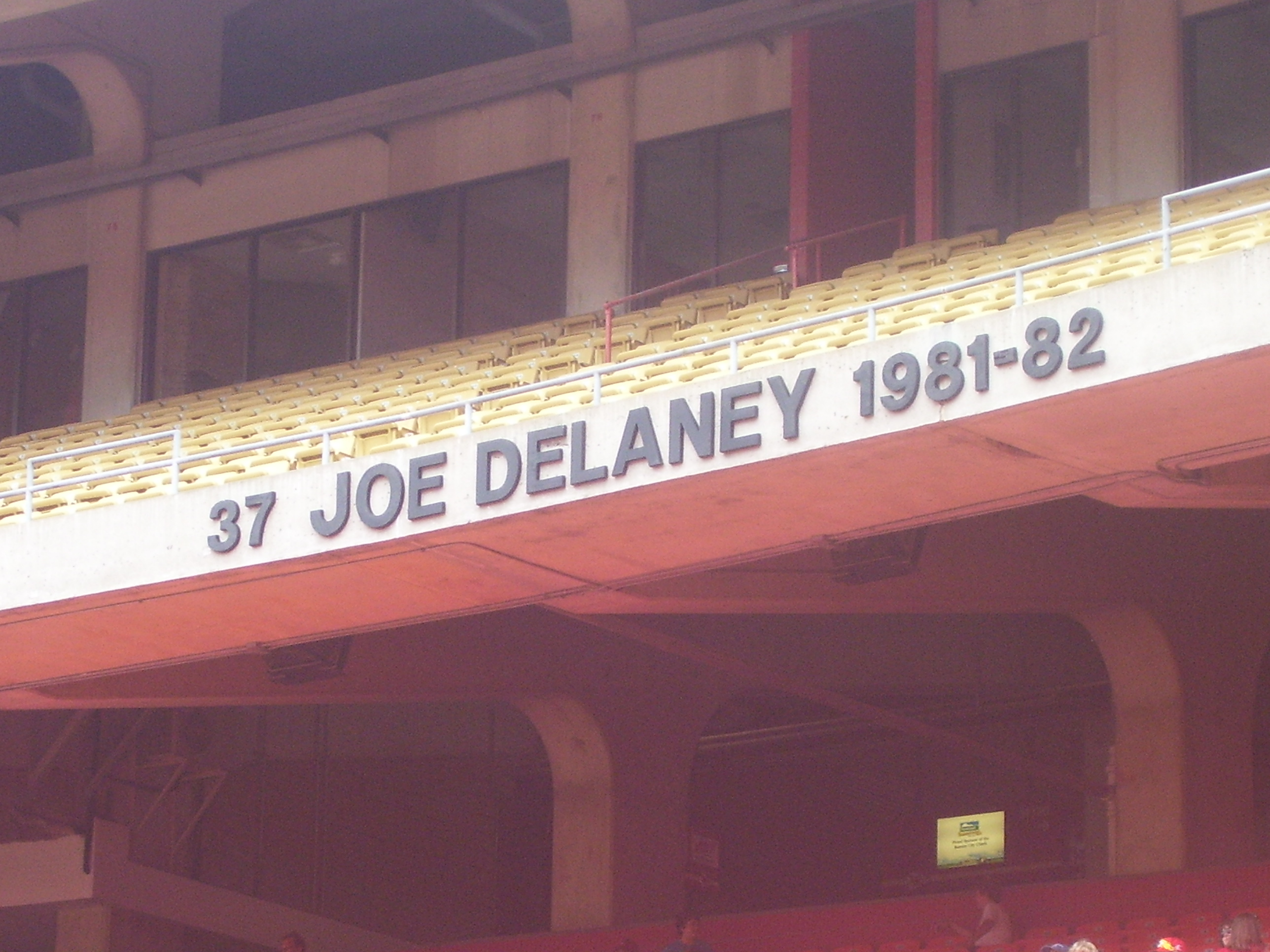 Picture of Joe Delaney's memorial in the ring of honor at Arrowhead Stadium in Kansas City. Former player with the Kansas City Chiefs.